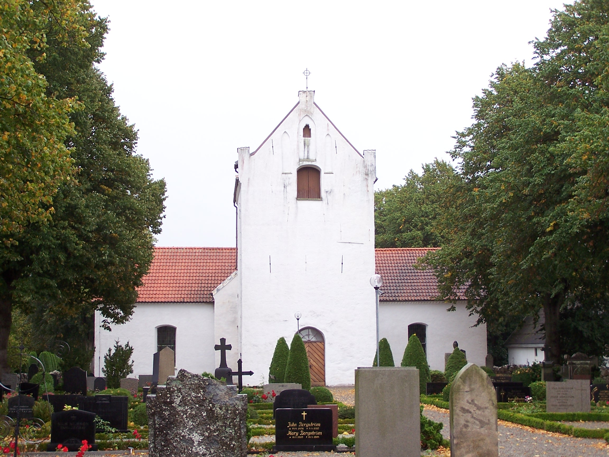 Nevishög church, Sweden